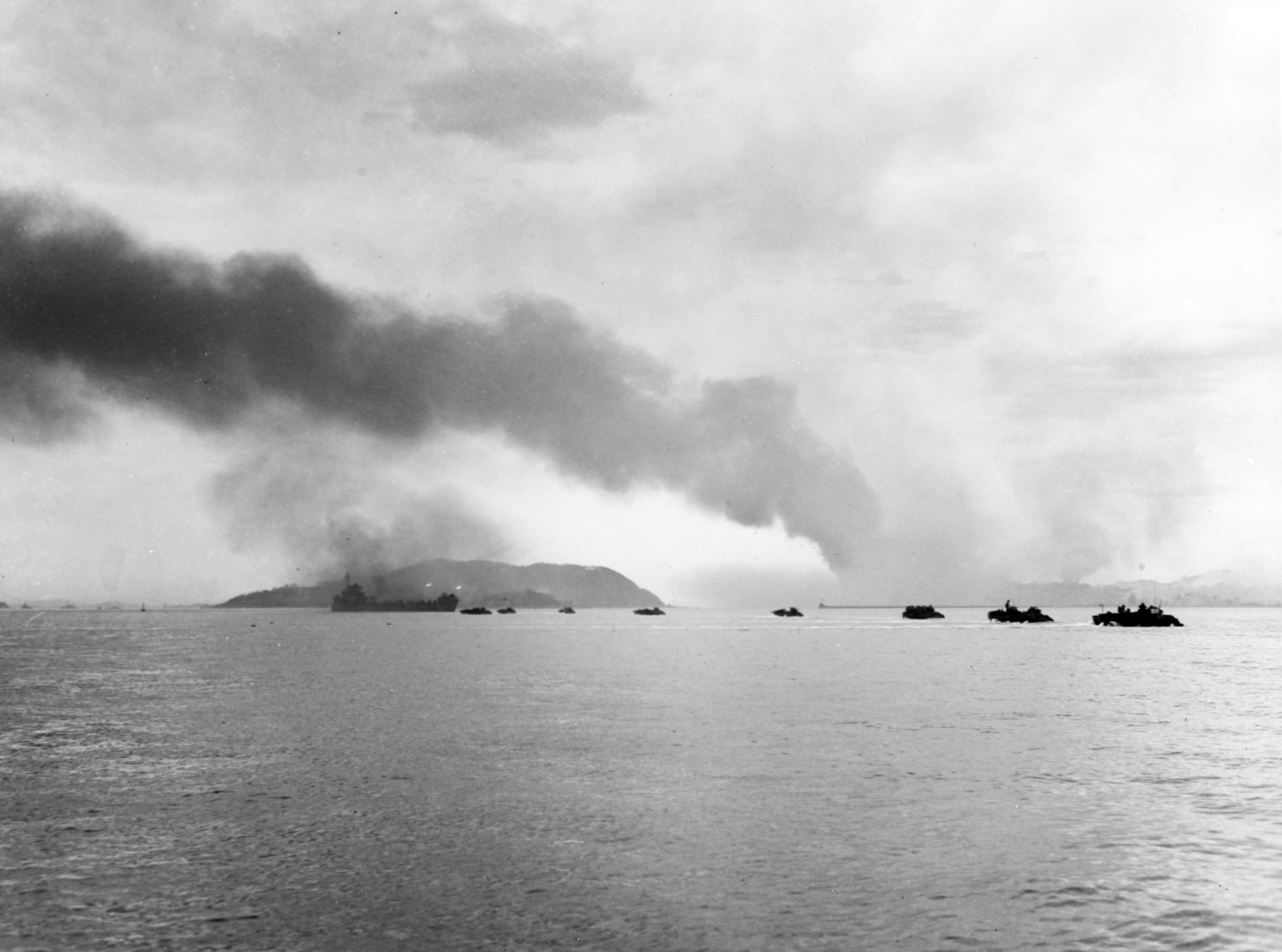 Inchon Invasion, September 1950: A LSMR fires rockets as LVTs cross the line of departure to take U.S. Marines to "Blue Beach" on the first day of landings, 15 September 1950. Wolmi-Do island is in the left center background. The Inchon waterfront is in the right center distance, with heavy smoke rising from pre-invasion bombardment.